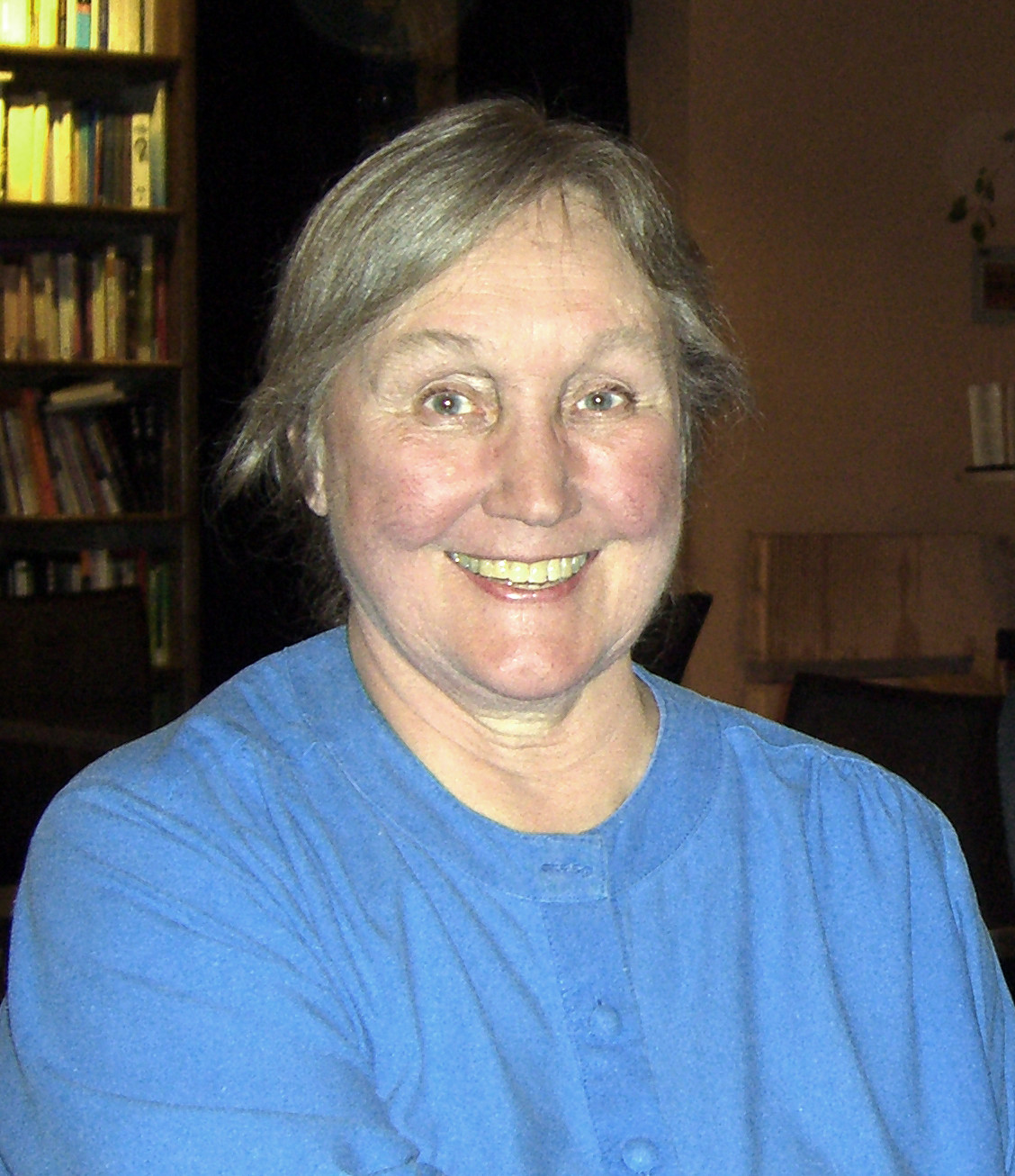 Author Cecilia Lindqvist photographed in Beijing, China, on October 28, 2008.